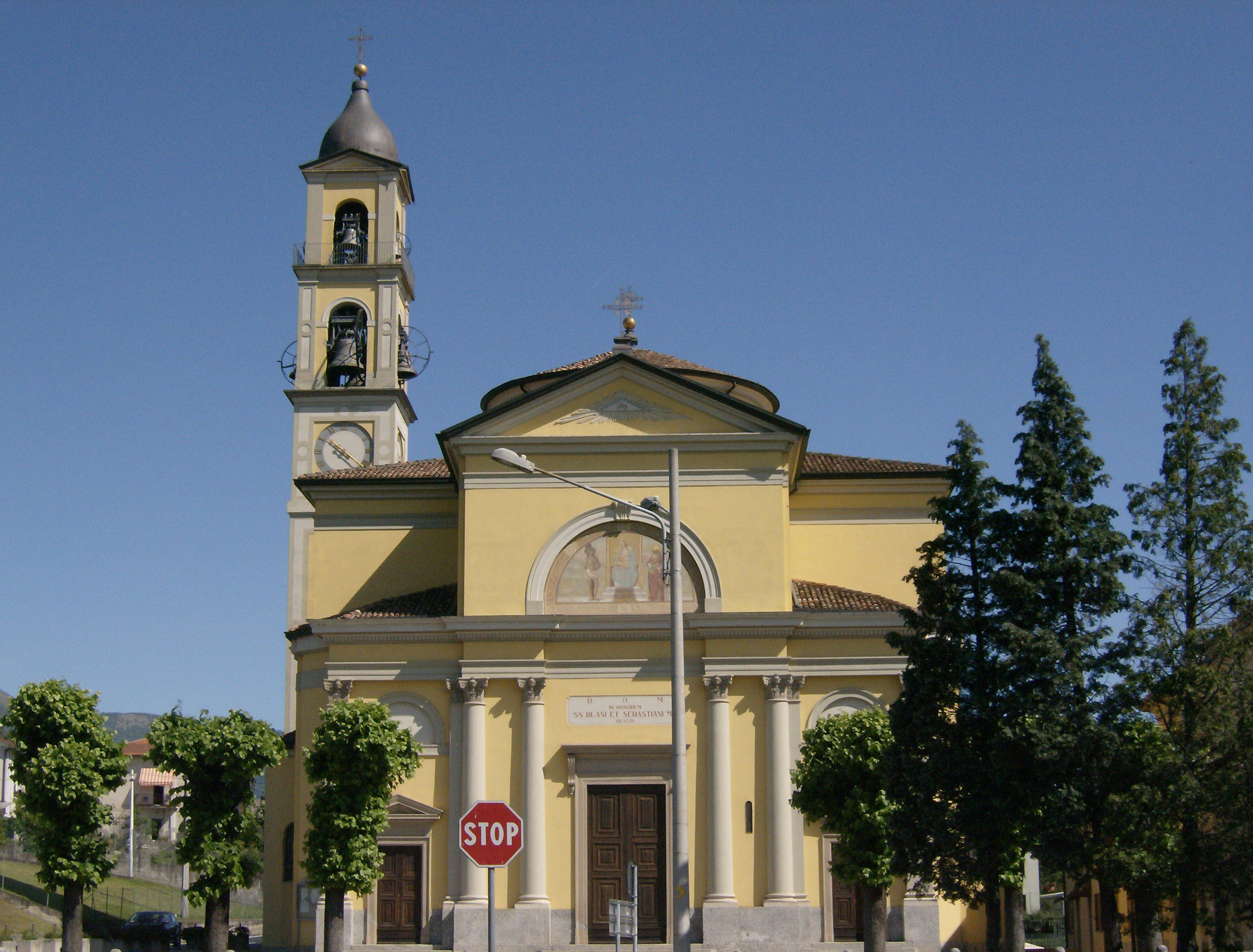 St. Blaise and Sebastian's Church